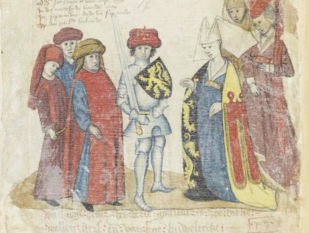 Marriage of Henry I of Brabant and Matilda of Boulogne